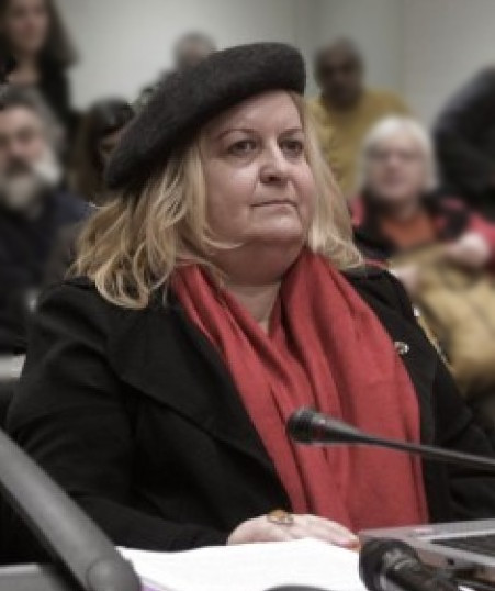 The head of excavations, archaeologist Katerina Peristeri, during the presentation of the excavation findings at Kasta Tomb, taking place in the Ministry of Culture amphitheater on 28th Oct 2014